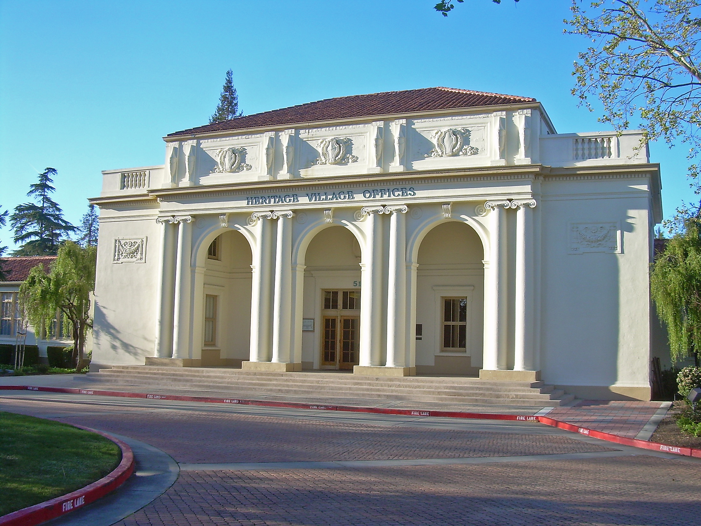 A view of Campbell Union Grammar School in Campbell, California, on the National Register of Historic Places.